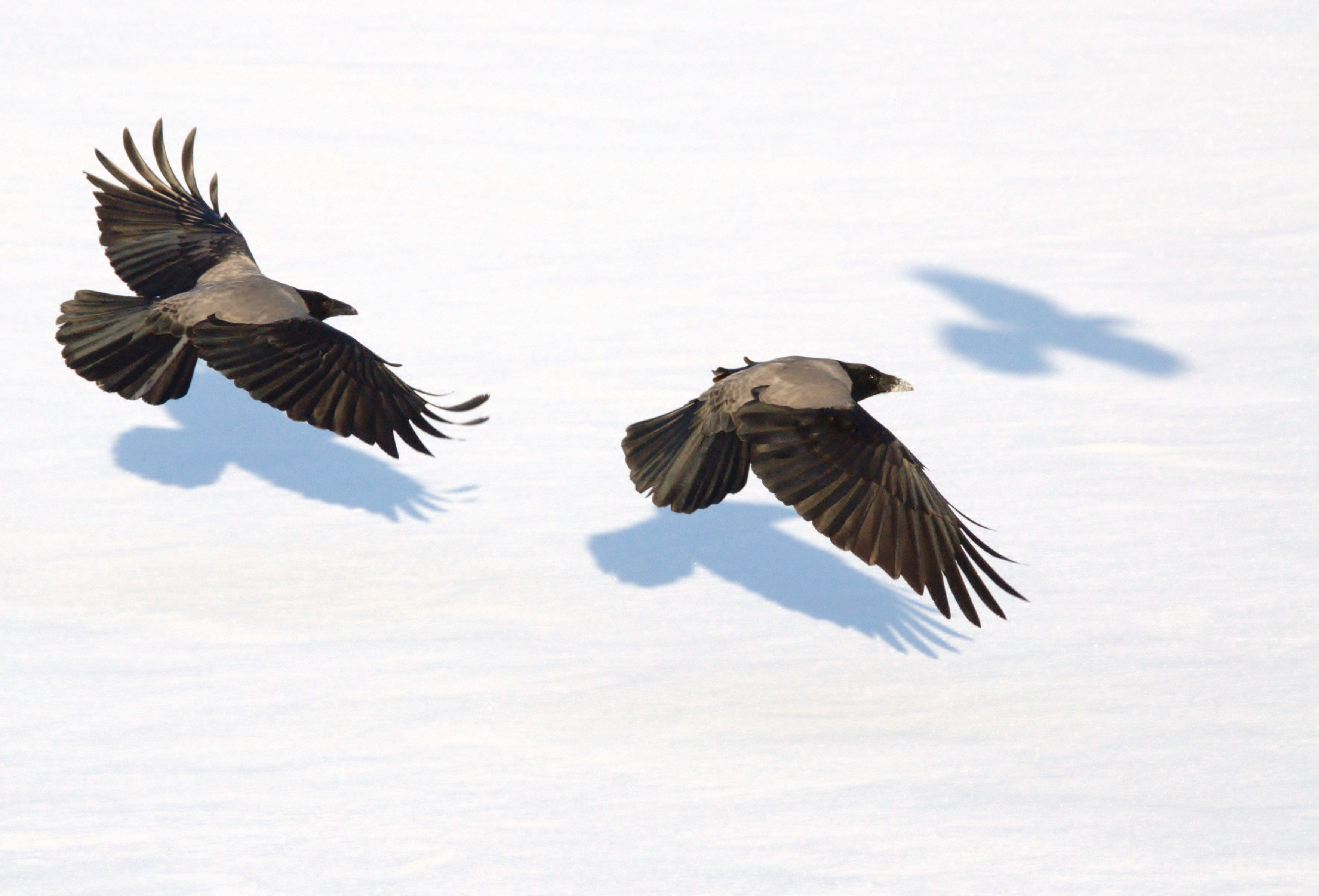 Flying crows (Corvus corone cornix).